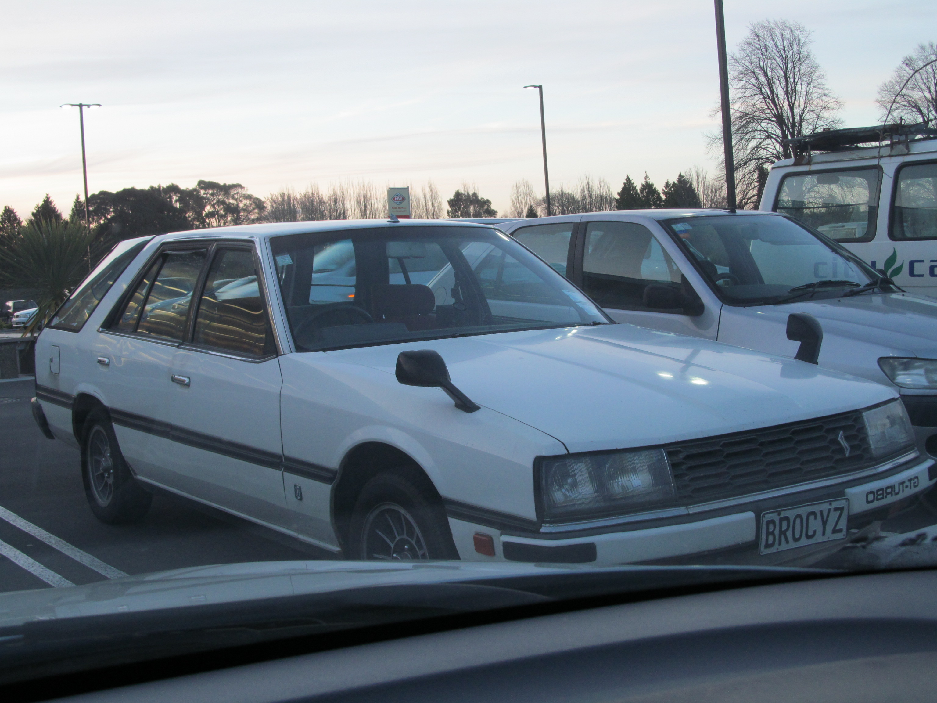 BROCYZ I couldn't be bothered getting out of the car for this one, as it was a fairly chilly early spring evening! This looks older than it actually is - van models of Japanese cars tend to stay in production longer than their passenger car counterparts. These 'vans' (essentially wagons/estates with no rear seats and an extremely basic specification) were very popular on the Japanese home market. This one is wearing a personalised number plate, which is unusual for something like this. You can imagine how noisy the 2.0-litre diesel engine must be...